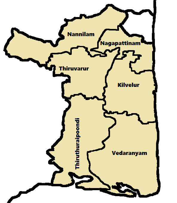 Nagapattinam Lok Sabha constituency, post 2008 delimitation. The 6 assembly constituencies shown